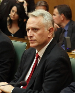 Giannis Ragousis, Minister for the Interior, Decentralization and Electronic Governance Cropped from a picture originally posted to Flickr as Πρώτη συνεδρίαση Υπουργικού Συμβουλίου